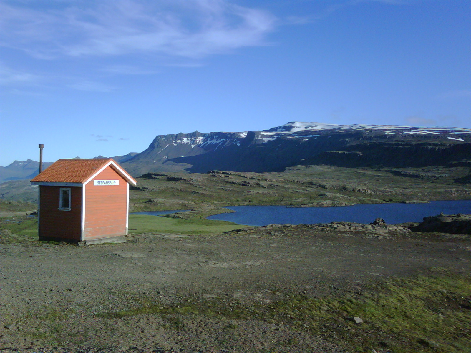 On former Ring Road, now road no. 95 (shelter Stefánsbúð with Heiðarvatn on Breiðdalsheiði)